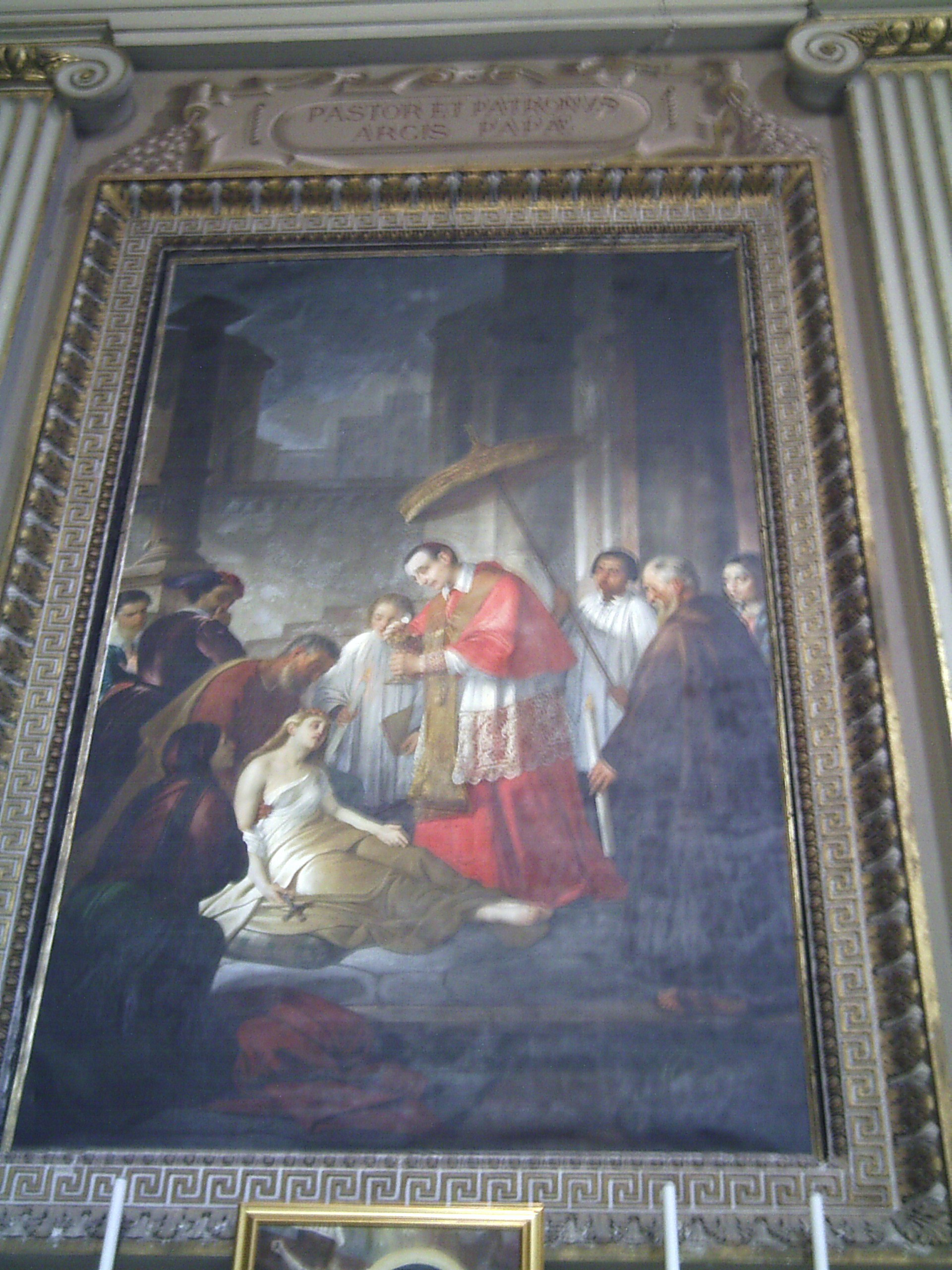 Saint Charles Borromeo - Painting in Rocca di Papa